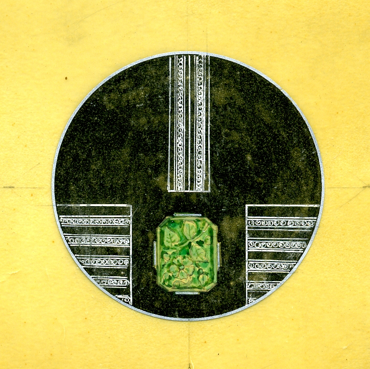 Design of an Art déco powder compact drawn in the nineteenthirties by Victor Mayer, founder of the jewellerey-manufacture Victor Mayer GmbH & Co KG in Pforzheim, Germany